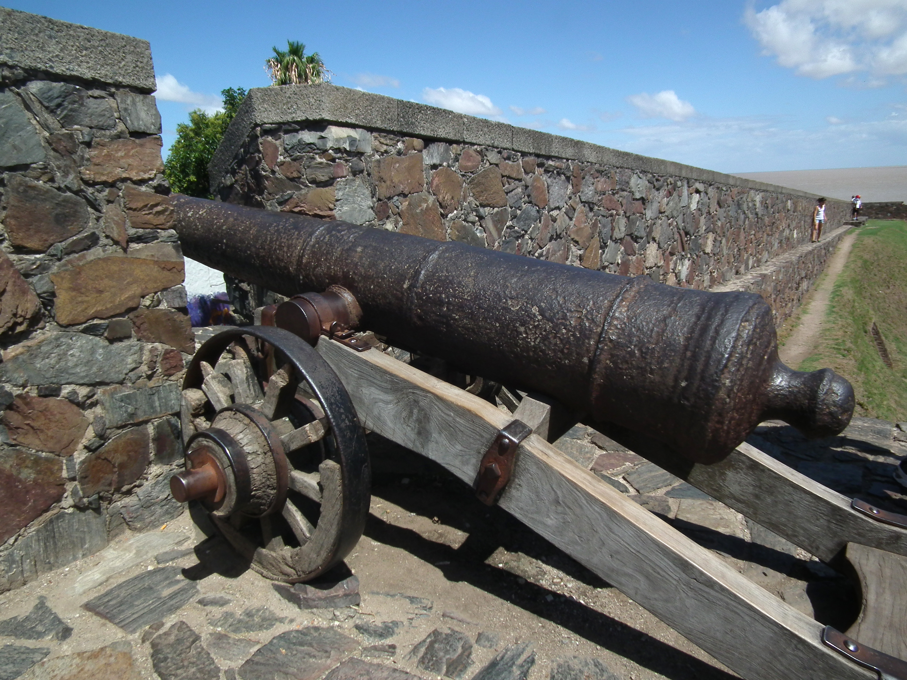 Cannon at the city wall of Colonia del Sacramento